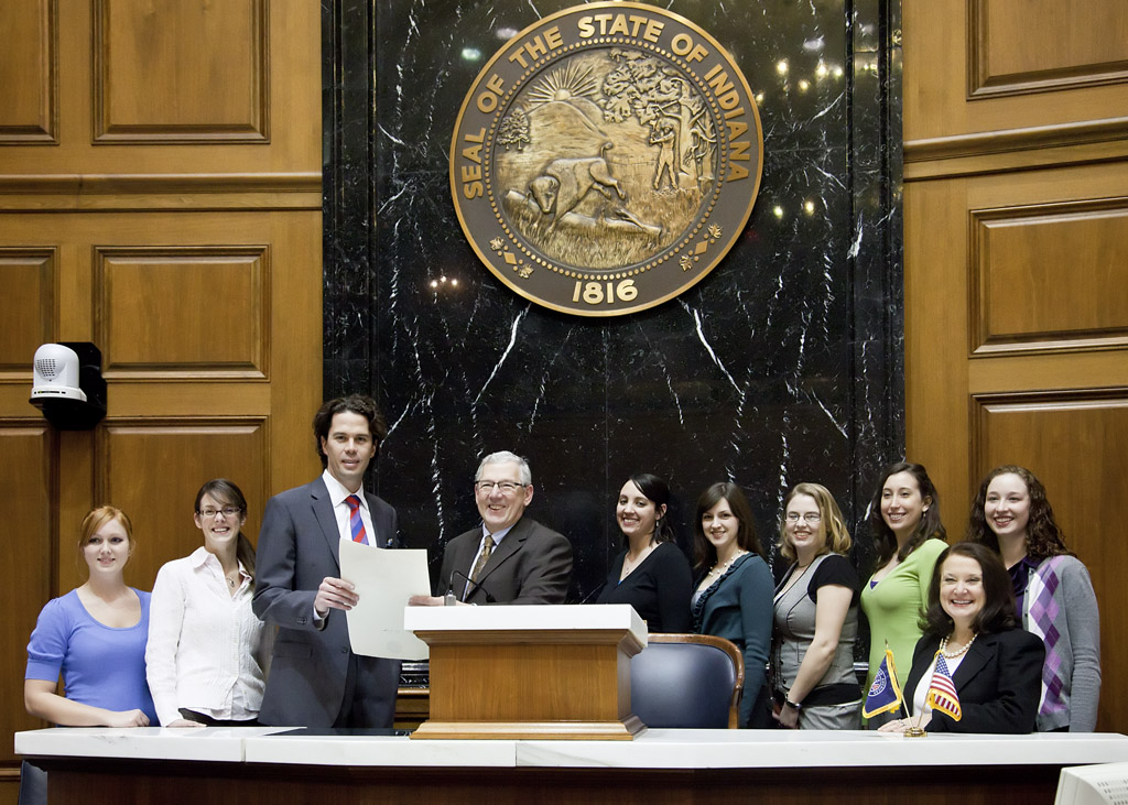 Members of the IUPUI Collections Care & Management course accept a Concurrent Resolution from Indiana House Representative Saunders, recognizing their work documenting the Indiana Statehouse public art on Wikipedia.